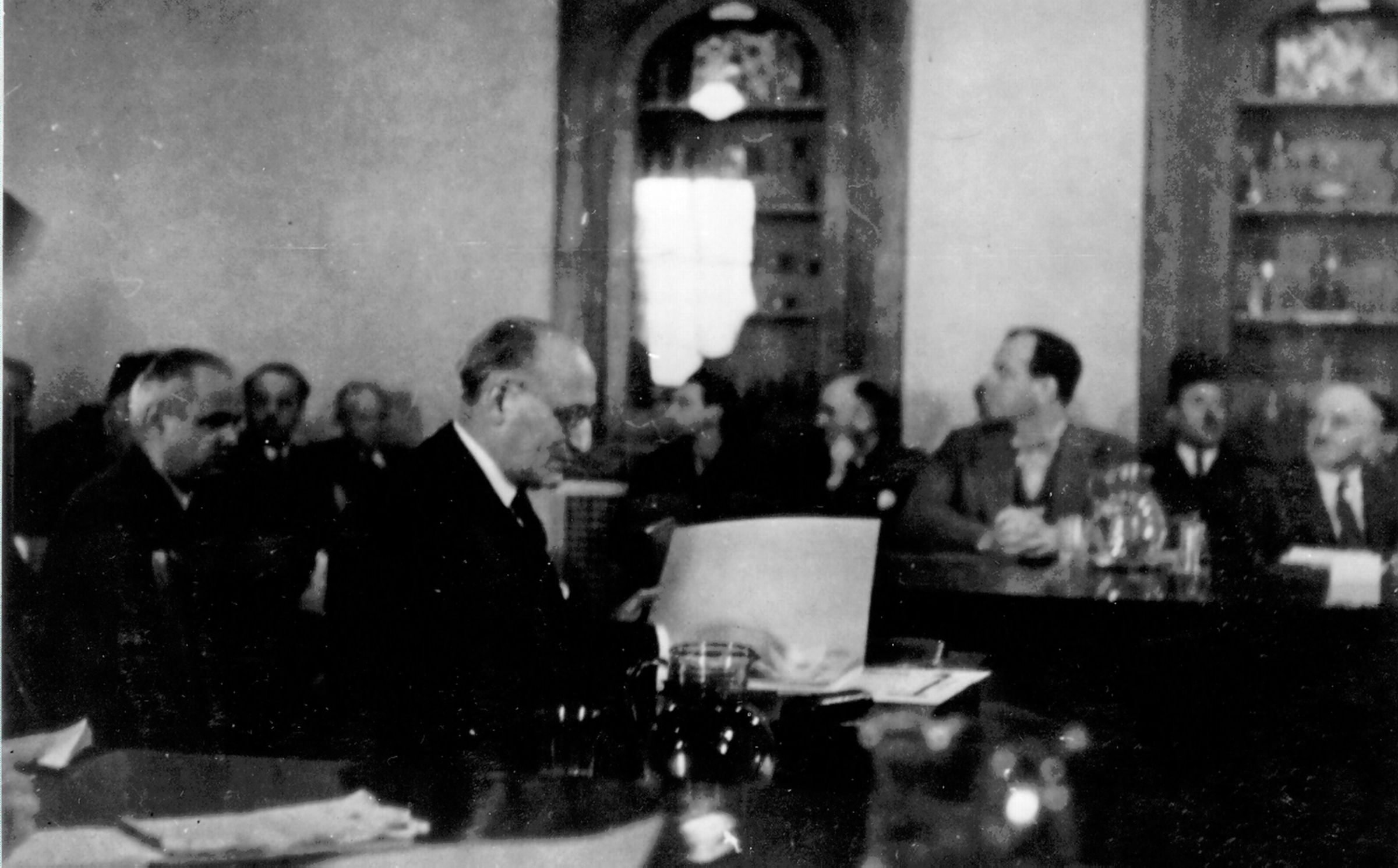 Eliezer Siegfried Hoofien, Anglo-Palestine Bank CEO, testifying before the Anglo-American Committee of Inquiry in Palestine